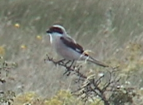 lesser Grey Shrike, Lanius minor, Kaliakra region, Bulgaria, July 2006, photo Ivan Petrov